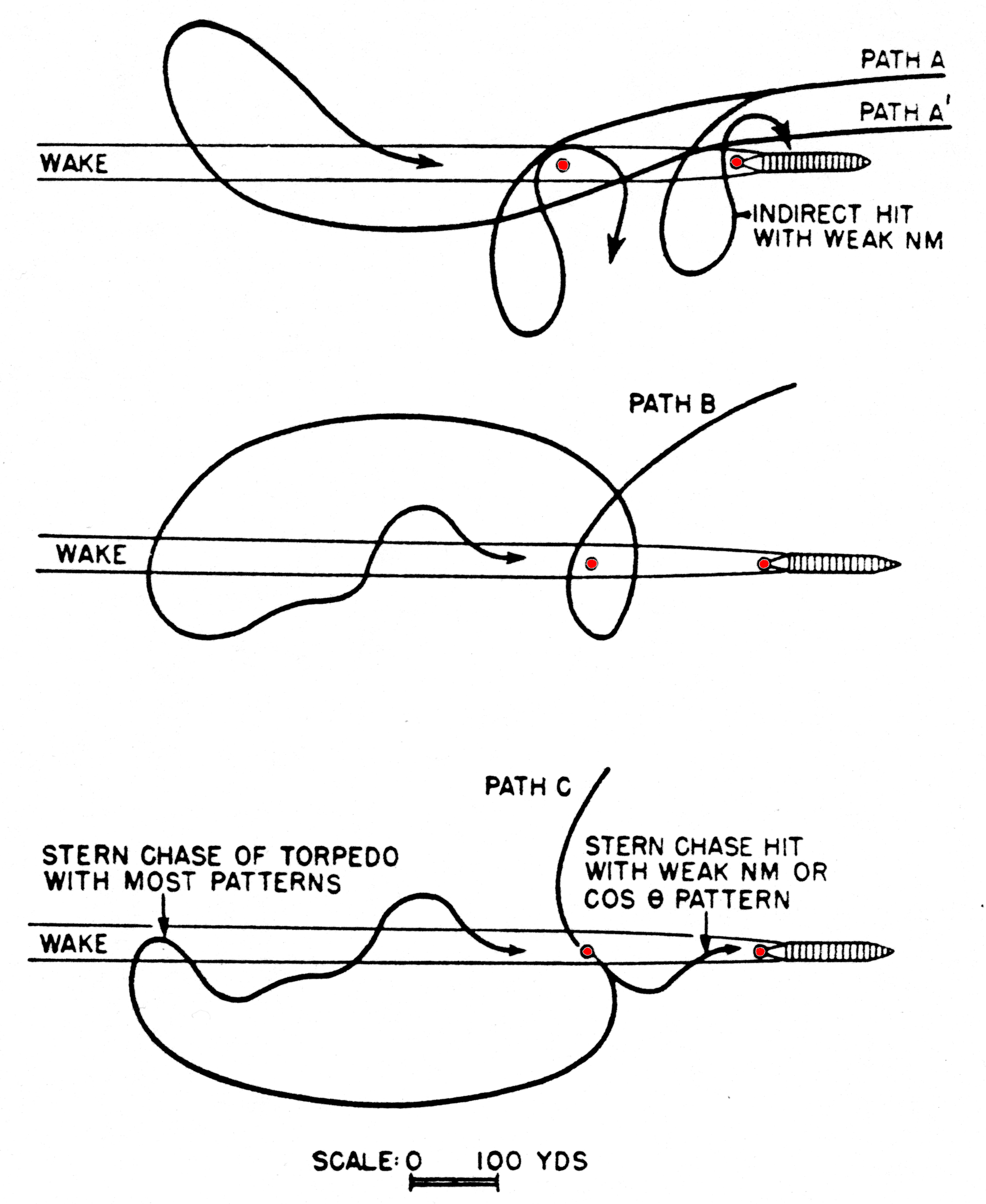 A diagram showing the likely paths of a German WWII acoustic homing torpedo against a ship moving at 12 knots towing a single noisemaker.